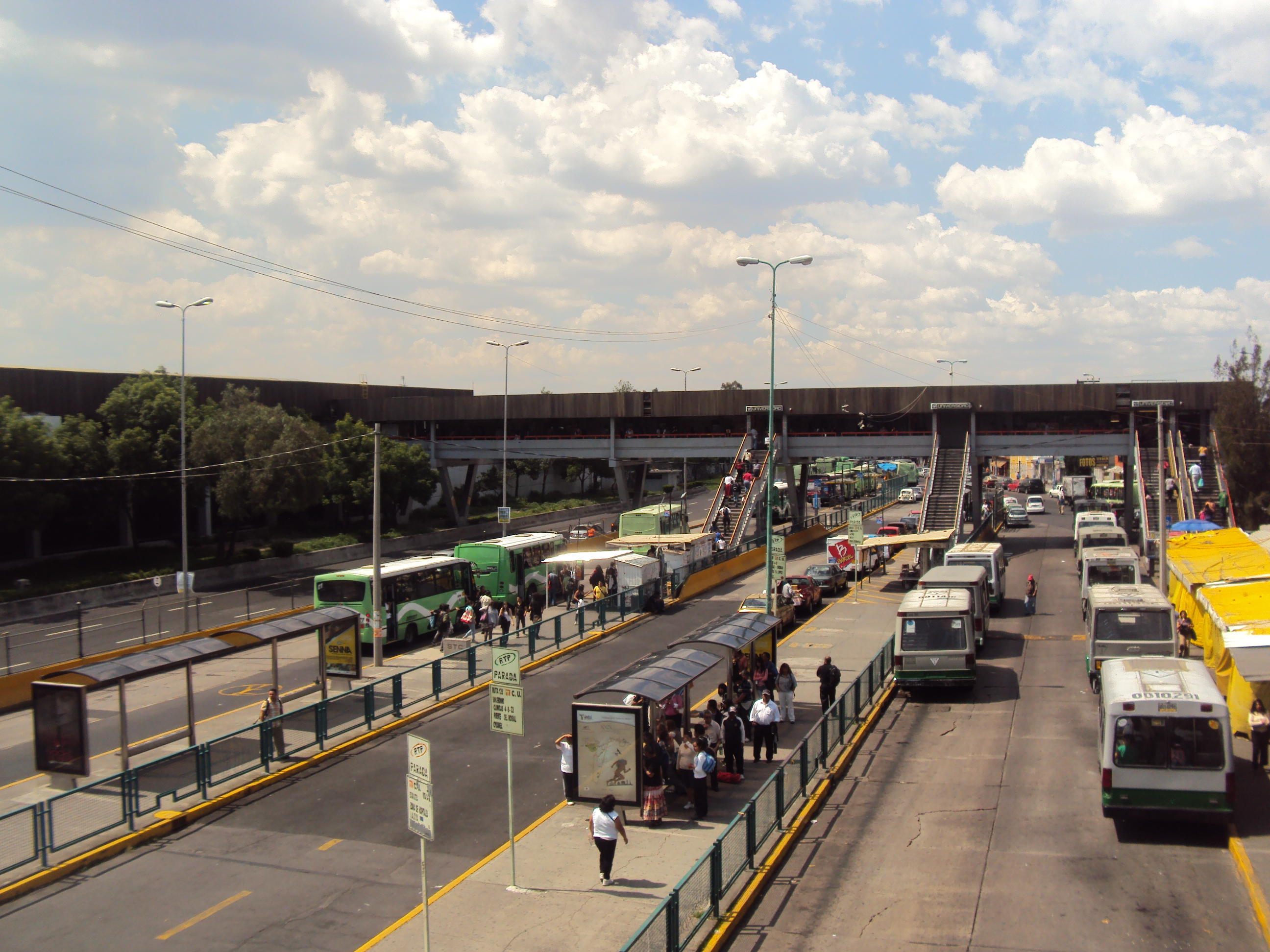 Exit bridge at Universidad Station, Mexico City Subway